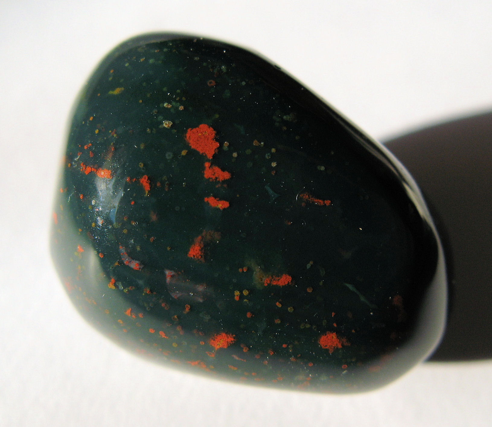 Quartz - Heliotrope (Bloodjasper)